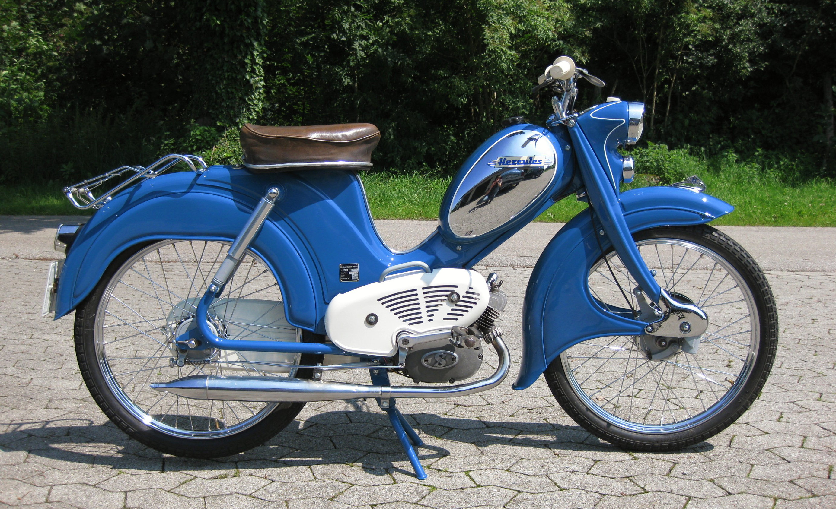 complete Restauration of Hercules 219, cylinder capacity: 50 cm³, year of manufacture: 1958